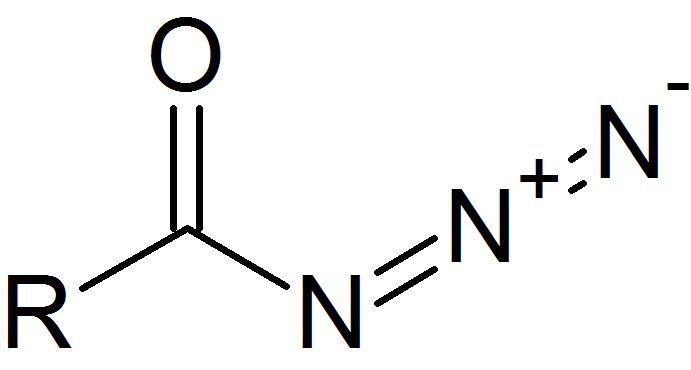 General acyl azide